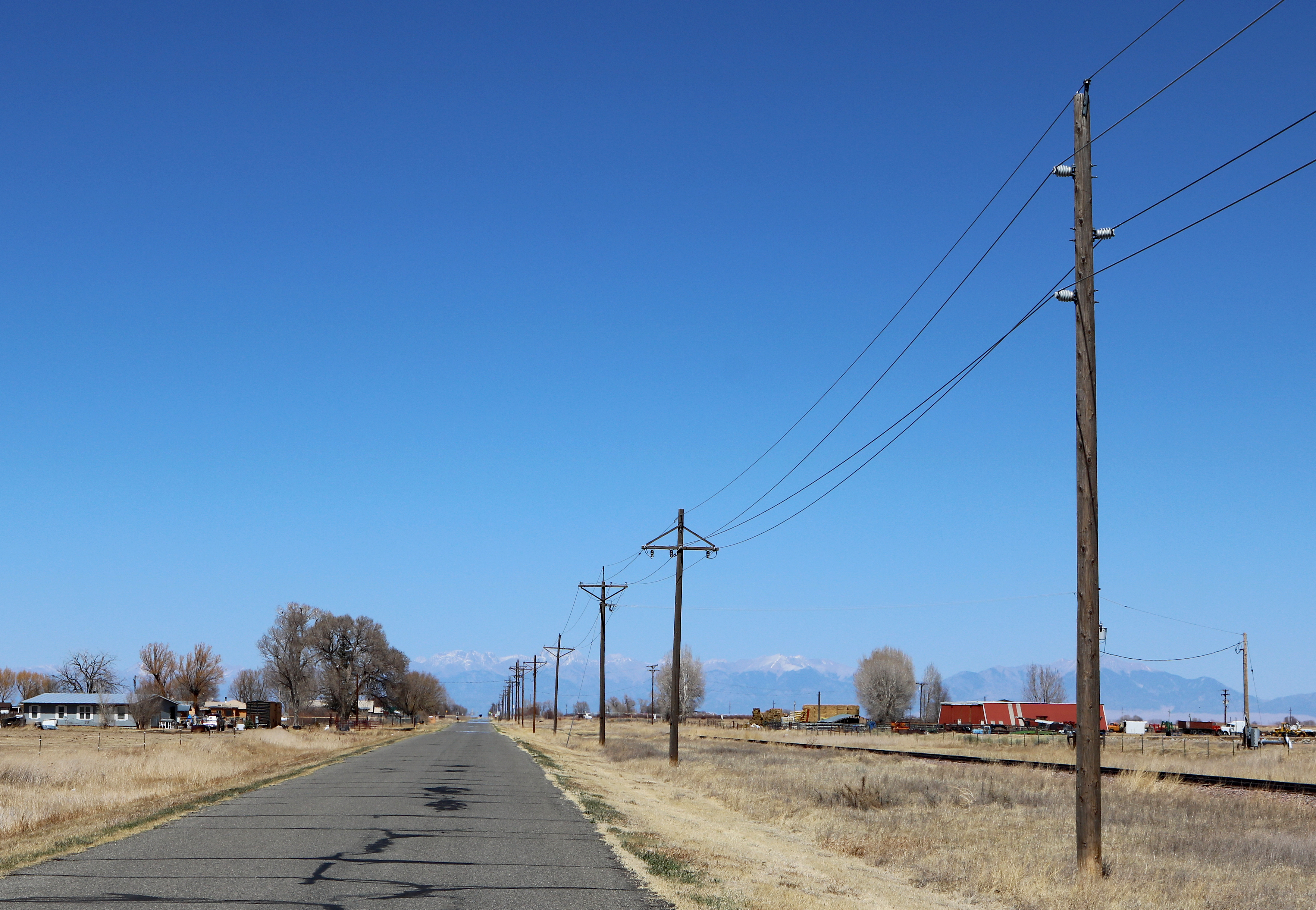 Estrella, Colorado, an unincorporated community in Alamosa County. The view is to the northwest along Estrella Road.